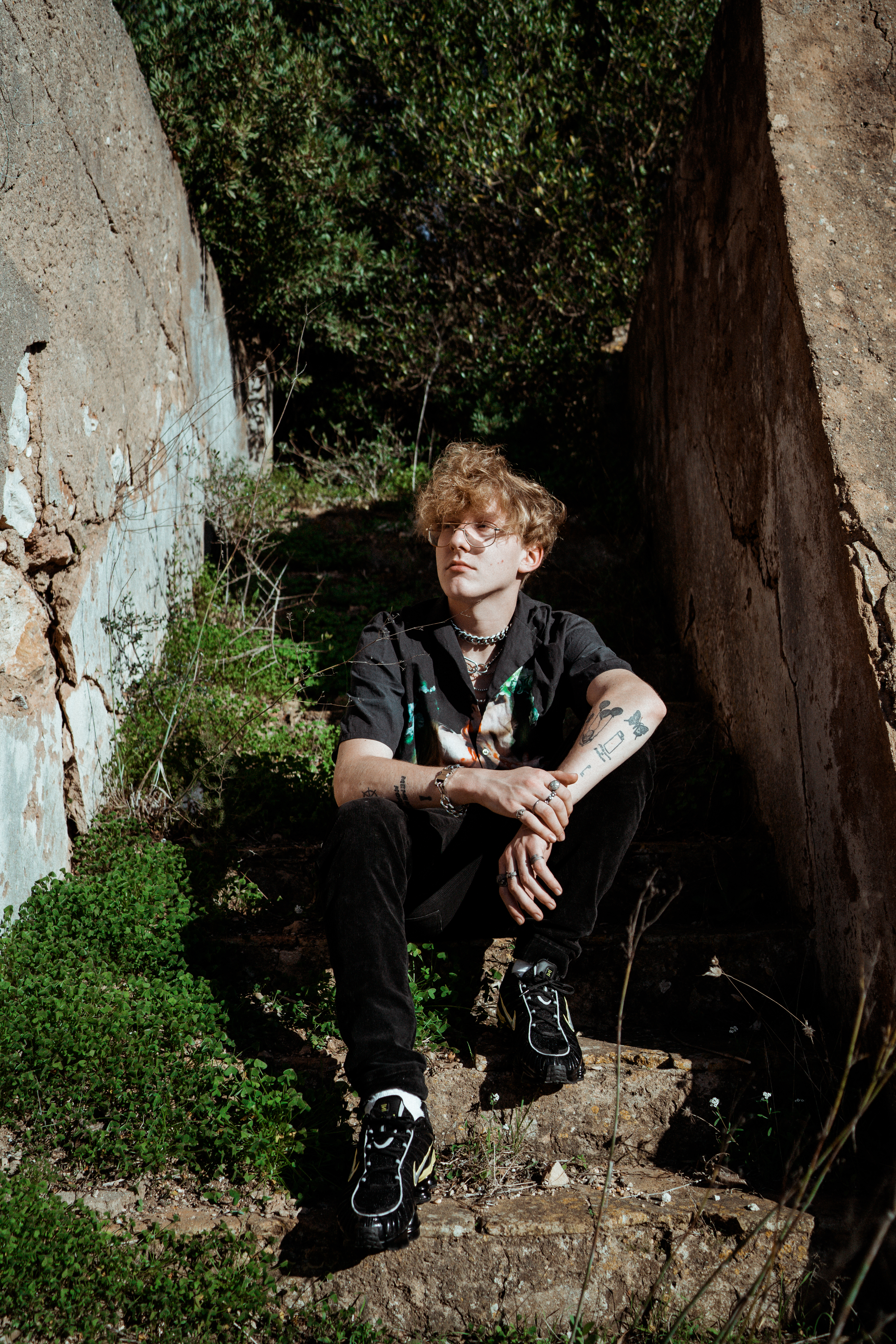 Pressefoto des Rappers Edo Saiya